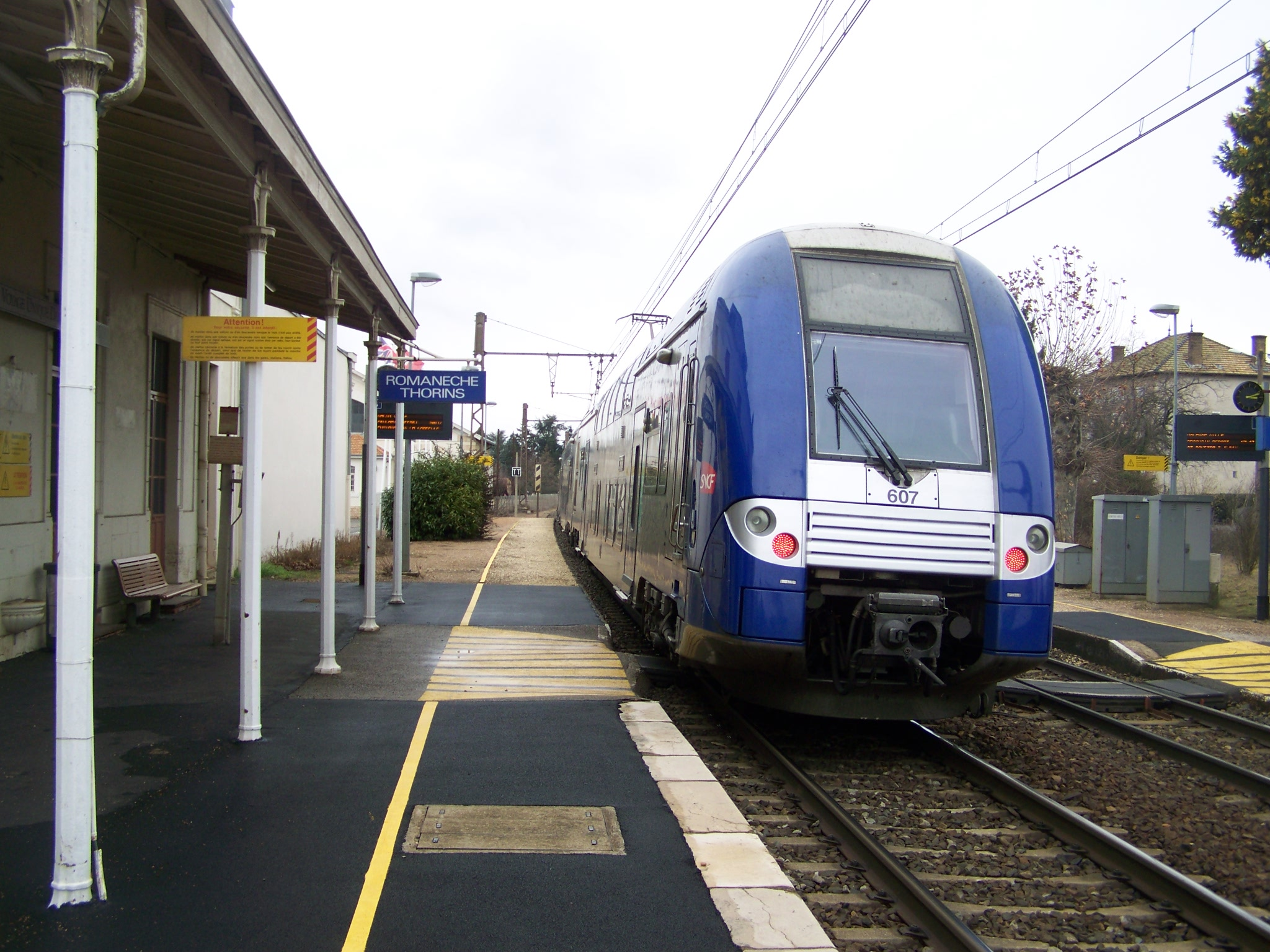 Sight of a French regional train from Lyon to Mâcon, here leaving Romanèche-Thorins railway station in Saône-et-Loire.